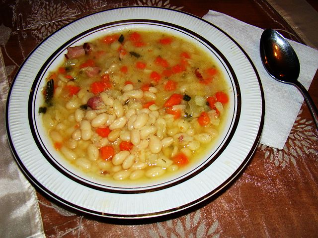 Bean soups